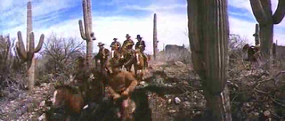 Cropped screenshot of the film How the West Was Won